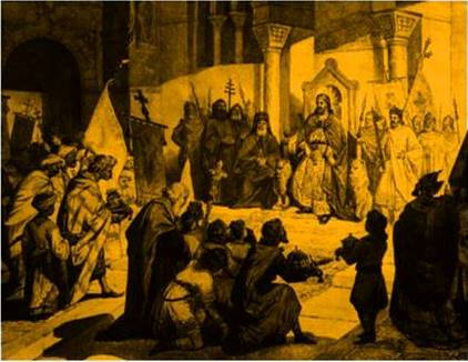 The coronation of King Leo I the Magnificent as King of Armenian Cilicia by the Italian artist Juliano Zasso, 1885.